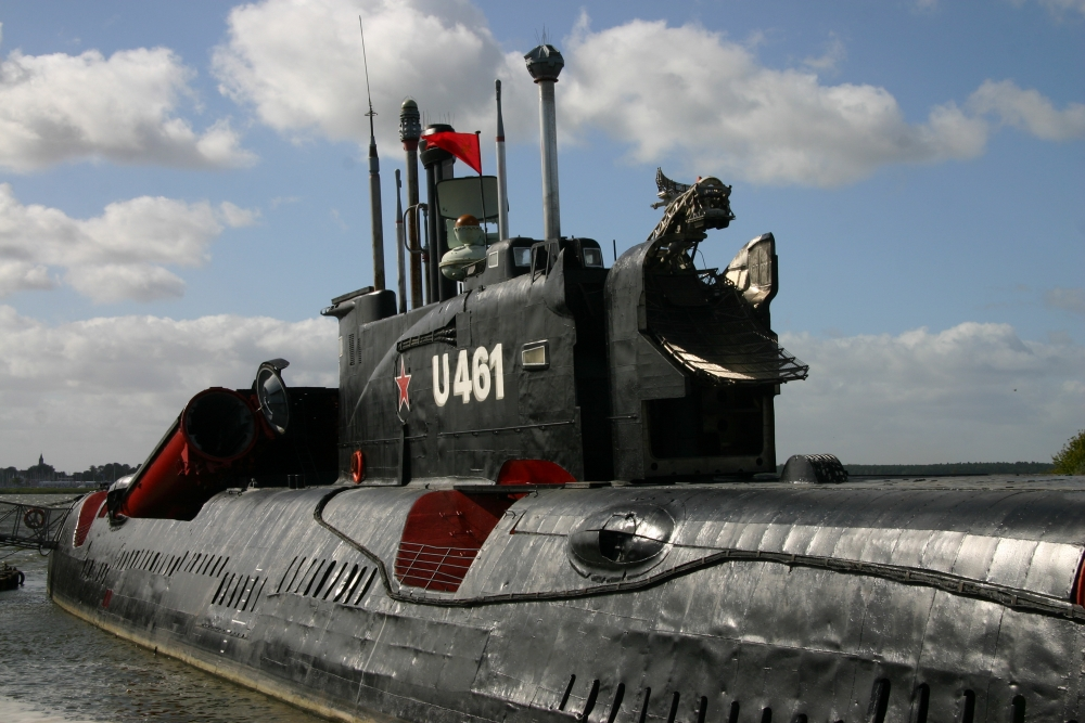 The russian Juliett-class submarine K-24 (wrongly marked as U-461) moored at Peenemünde, Germany